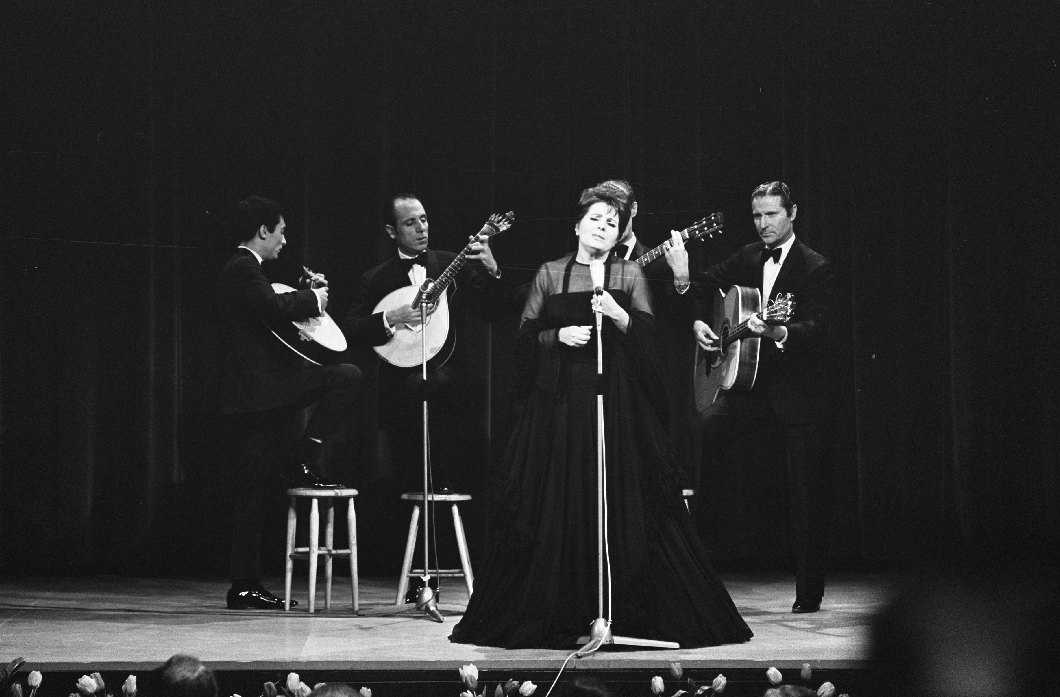 Amalia Rodrigues at Grand Gala du Disque Populaire in Congrescentrum (the Netherlands). 7 March 1969